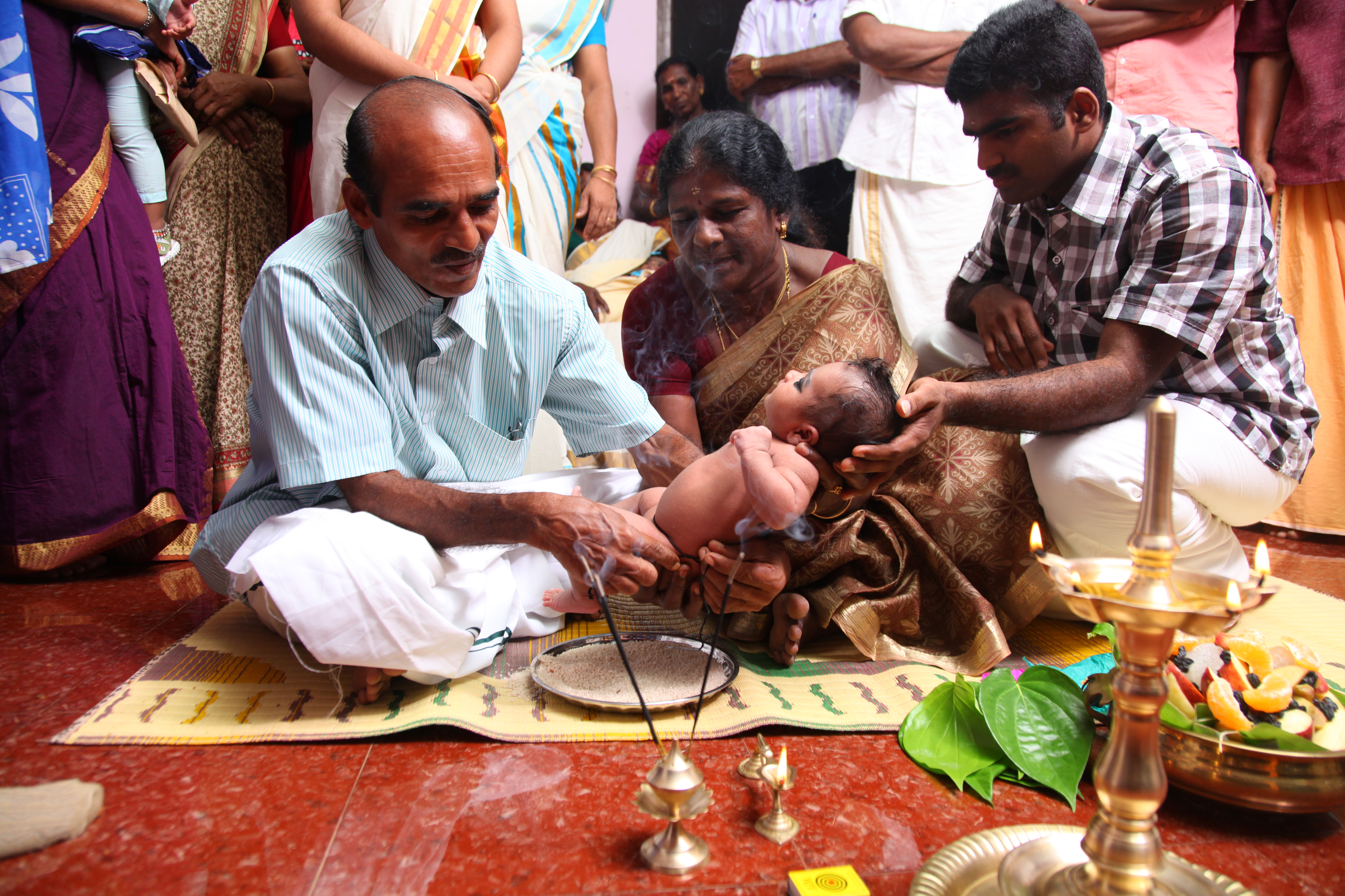 Grand Father (Baby's Father's Father) tie a Black string on waist, this ritual is called Nool Kettu.